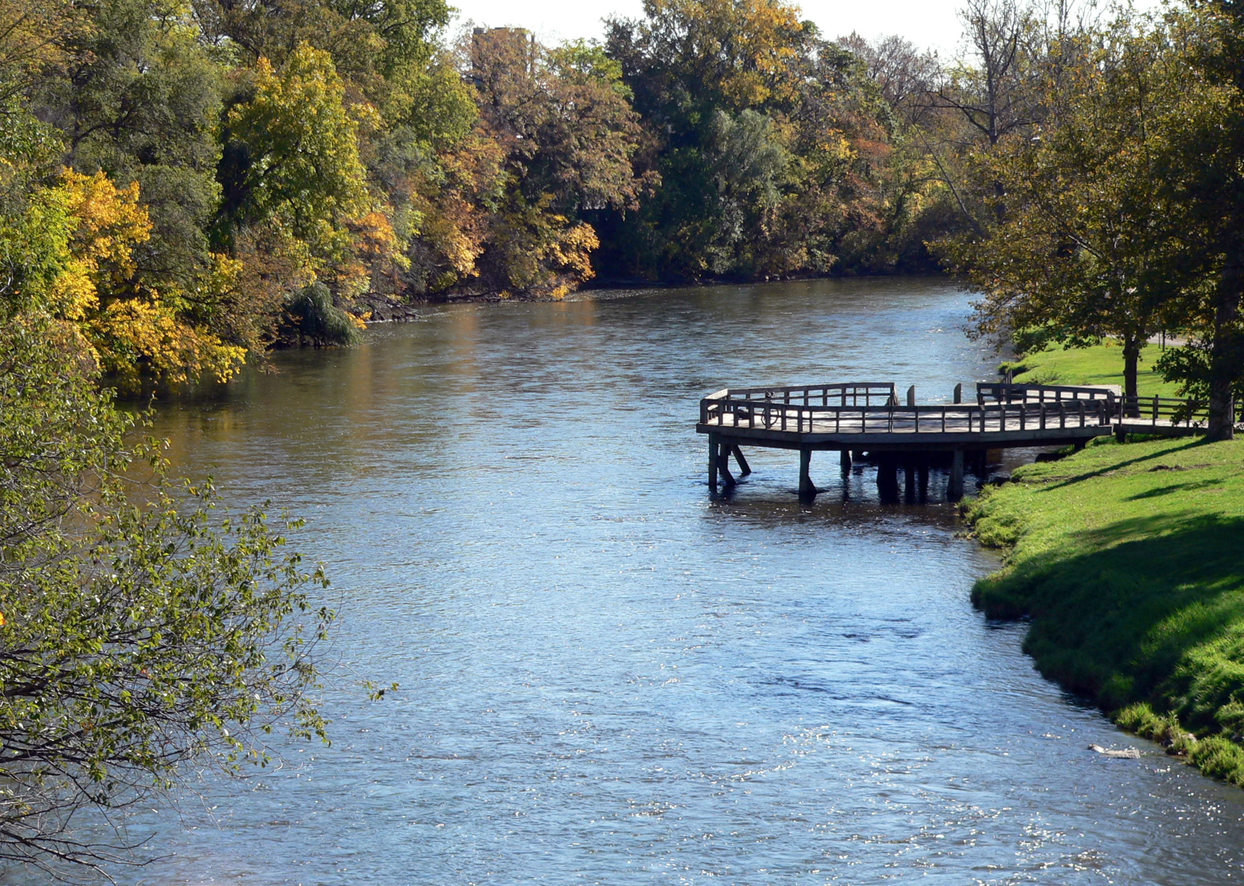 The Huron River (Michigan) flows roughly from north (camera position) to south (horizon) through Riverside Park in Ypsilanti, Michigan.